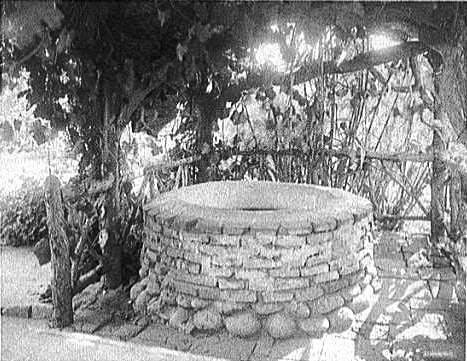 Wishing well, Estudillo House, San Diego, California, USA